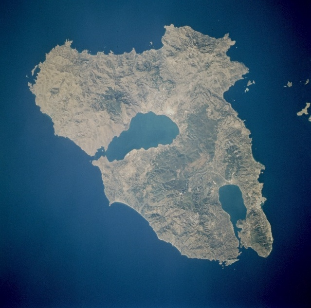 Lesbos Island, Greece - September/October 1995